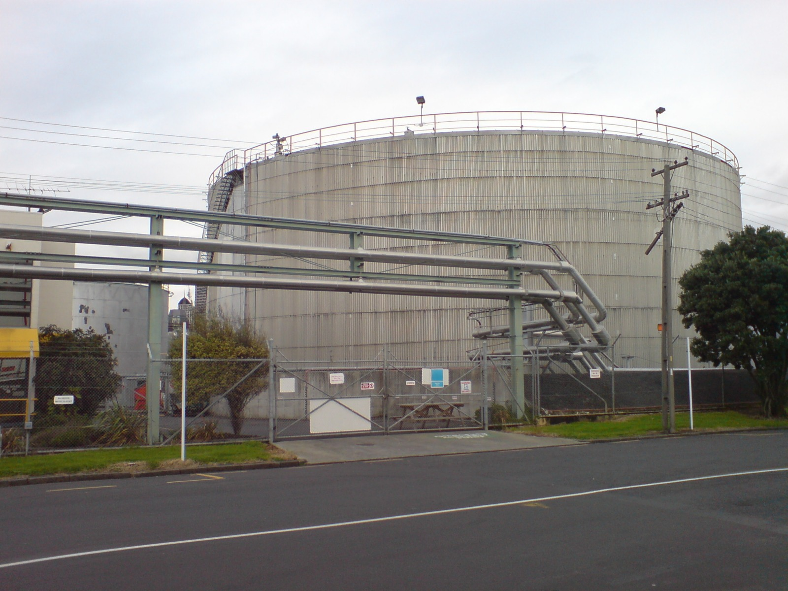 A chemicals or petroleum products tank near Wynyard Point on the Western Reclamation in Auckland City, New Zealand. Seen looking southeast from Hamer Street.